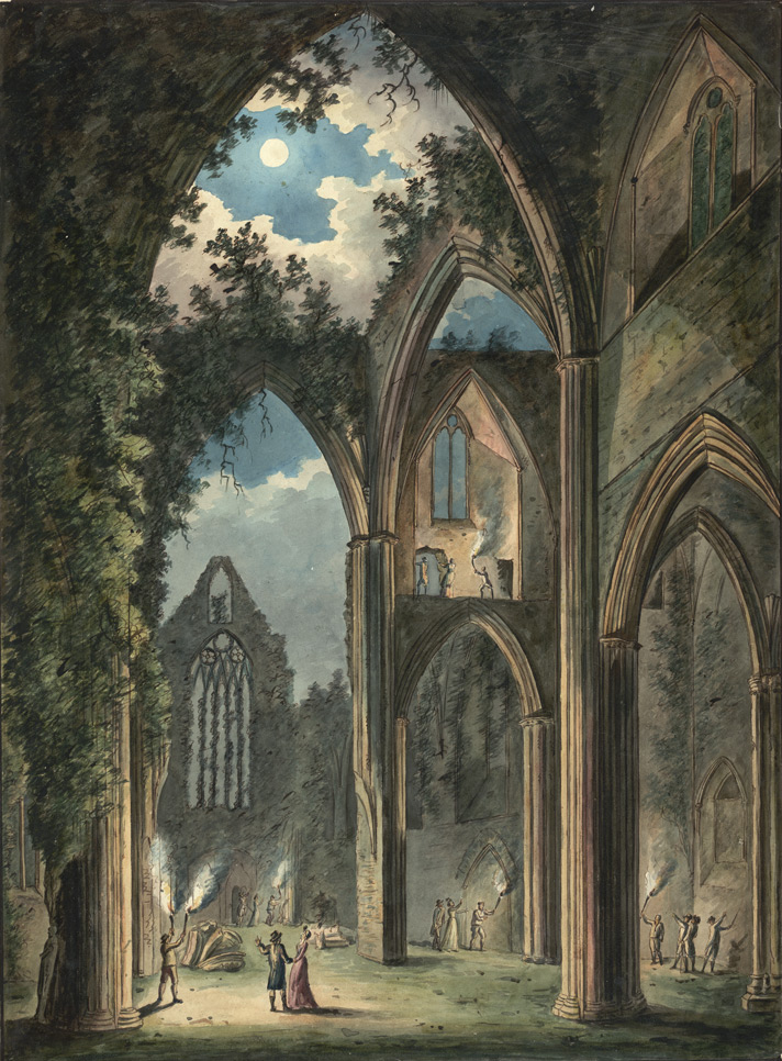 A visit to Tintern Abbey by moonlight, a painting by Peter van Lerberghe, 1812; British Library